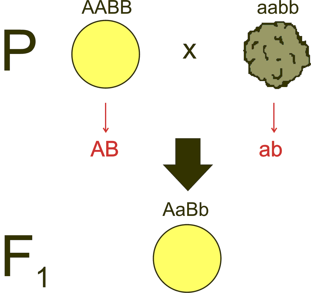 Mendel's law of independent assortment P and F1